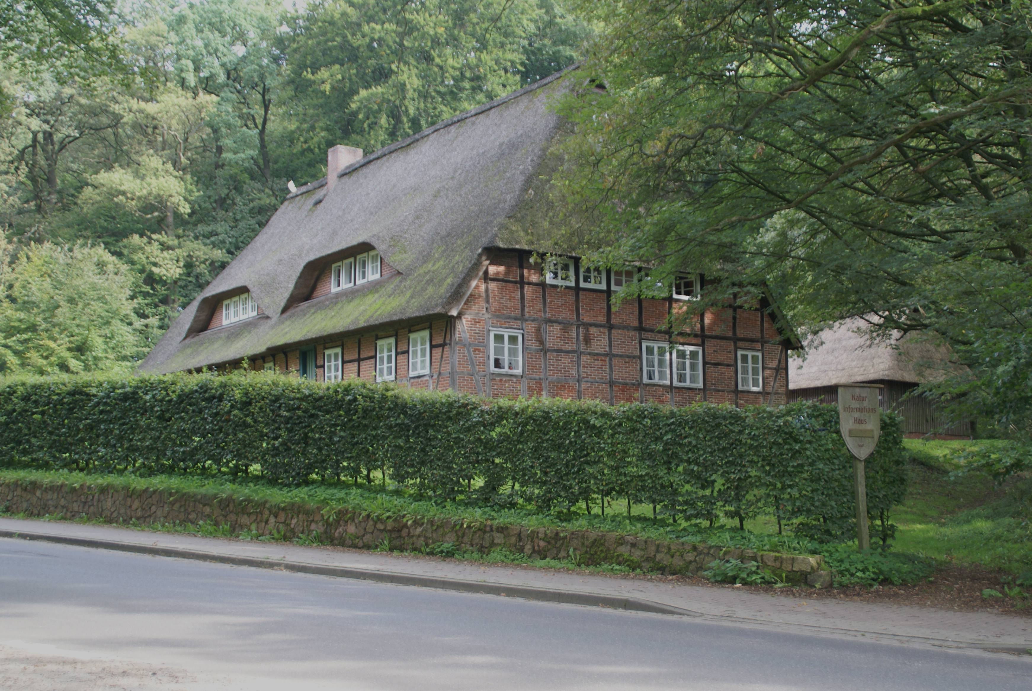 Niederhaverbeck (Germany): Naturinformationshaus